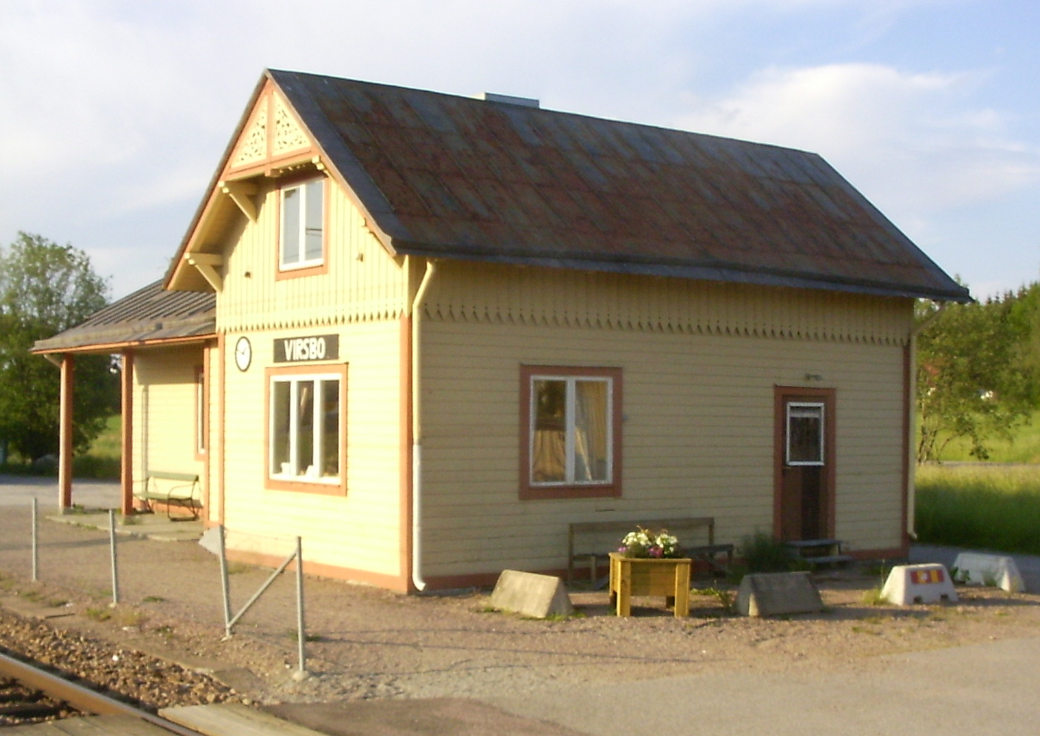 Virsbo Train Station